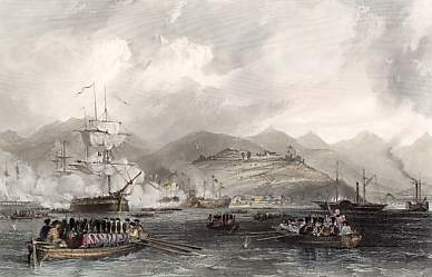 Capture of Ting-hai, Chusan.